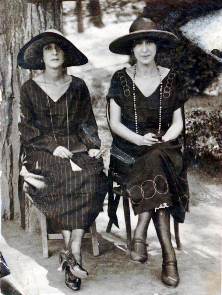 Elizabeth Mikheilis asuli Taktakishvili, mother of the Georgian composer Otar Taktakishvili, along with her sister.